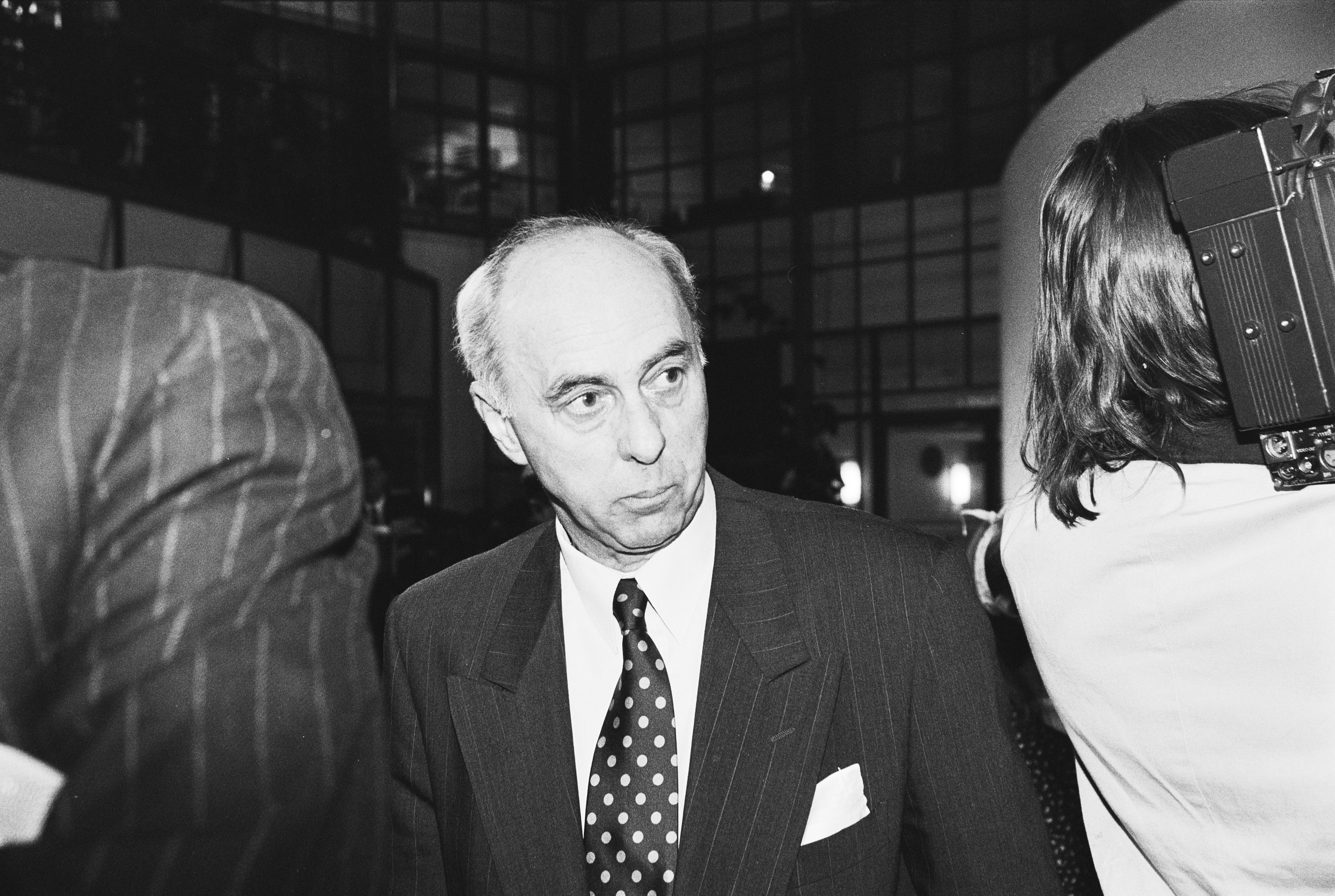 Photograph of the Finnish economist Ove Rehn (1933–2004), husband of Elisabeth Rehn, during the election night.